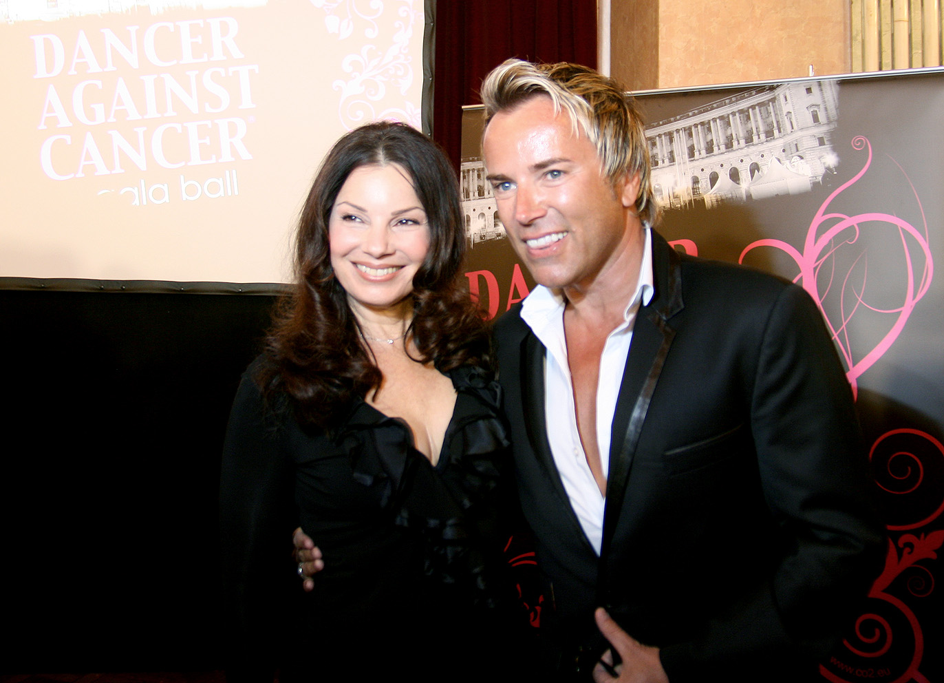 Fran Drescher and Uwe Kröger during a press conference for the charity ball dancer against cancer (Palais Auersperg, Vienna)